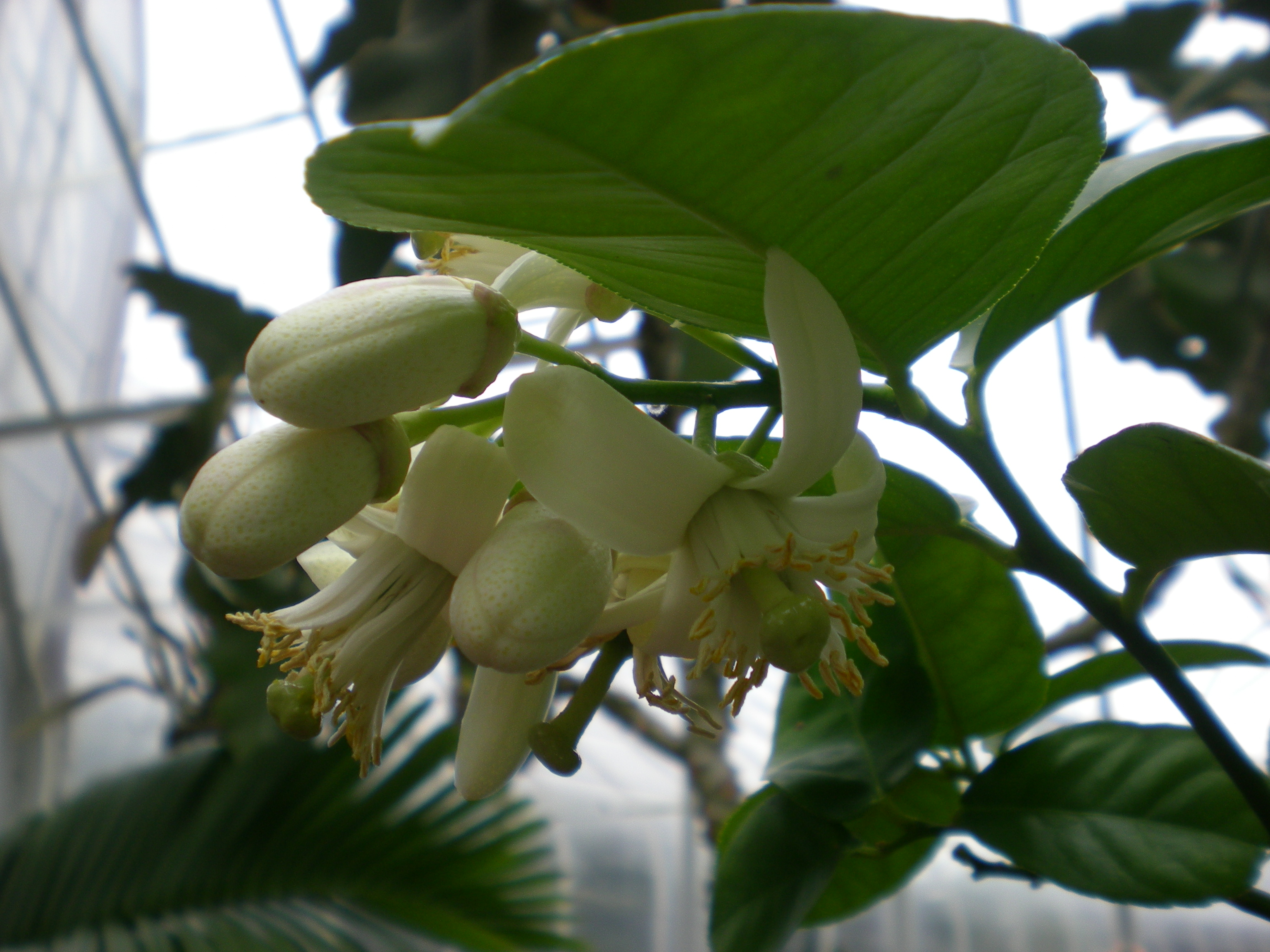 Citrus x limon flowers.